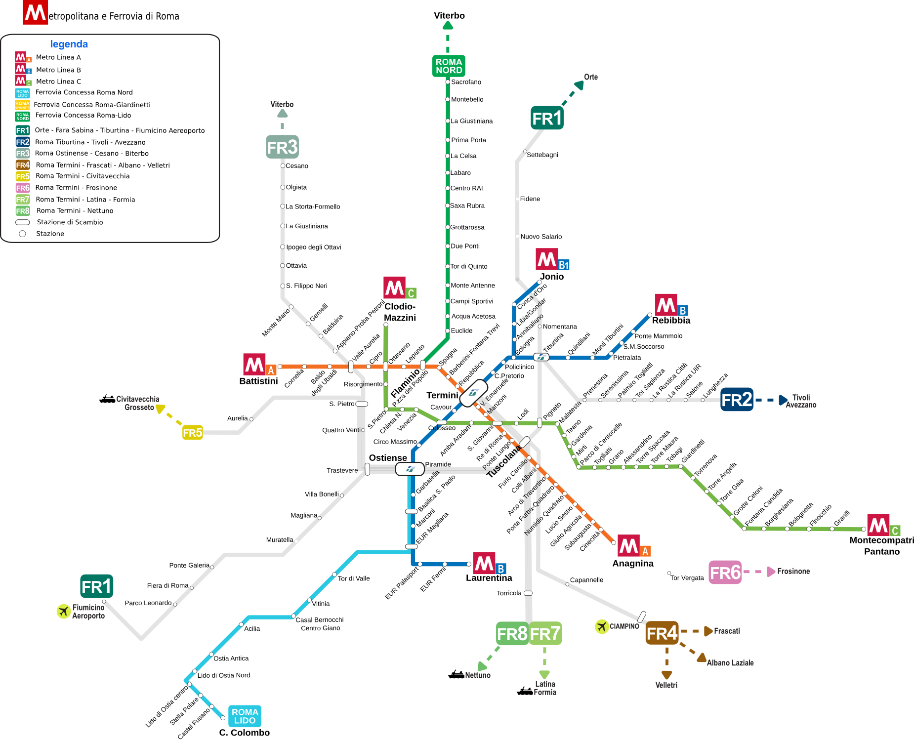 Metro Map, regional and urban railways in Rome in 2015